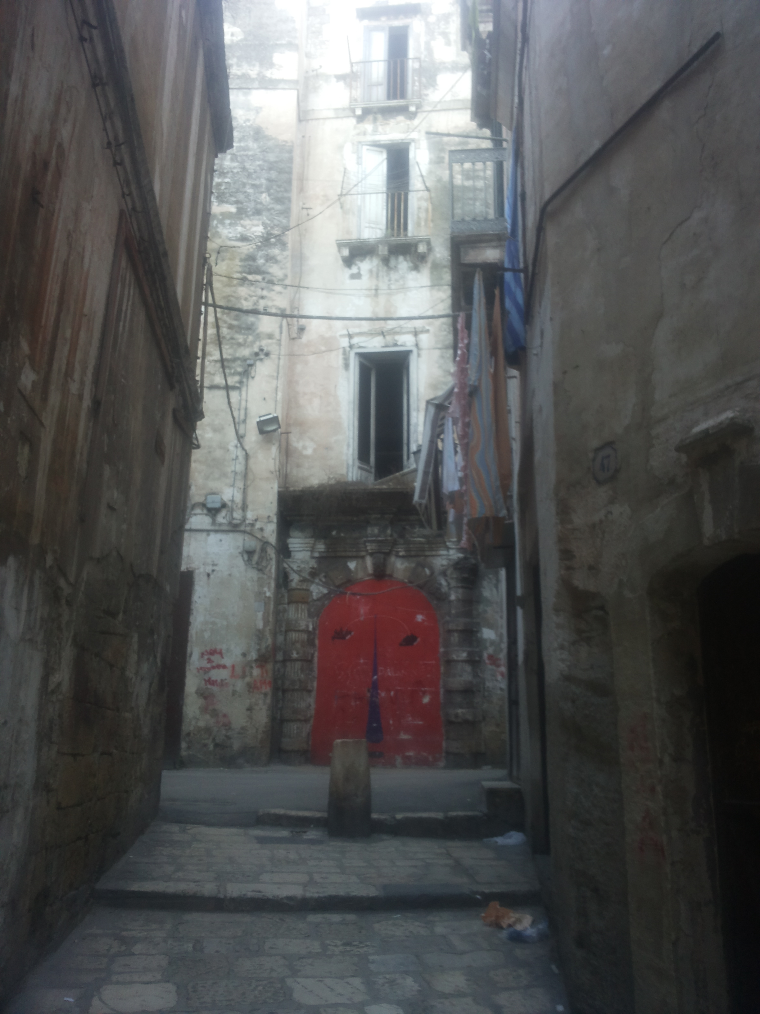 The bottom of Via Cava and its junction with Via Duomo in Taranto's Citta Vecchia taken on 12 October 2015